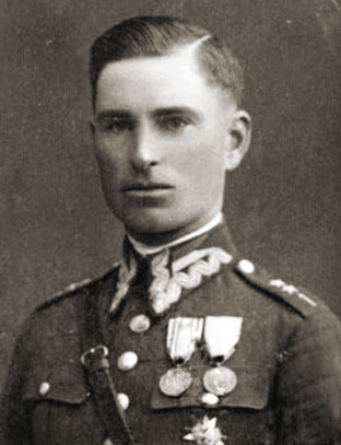 Narcyz Łopianowski (1898-1984) - Major of the Polish Army